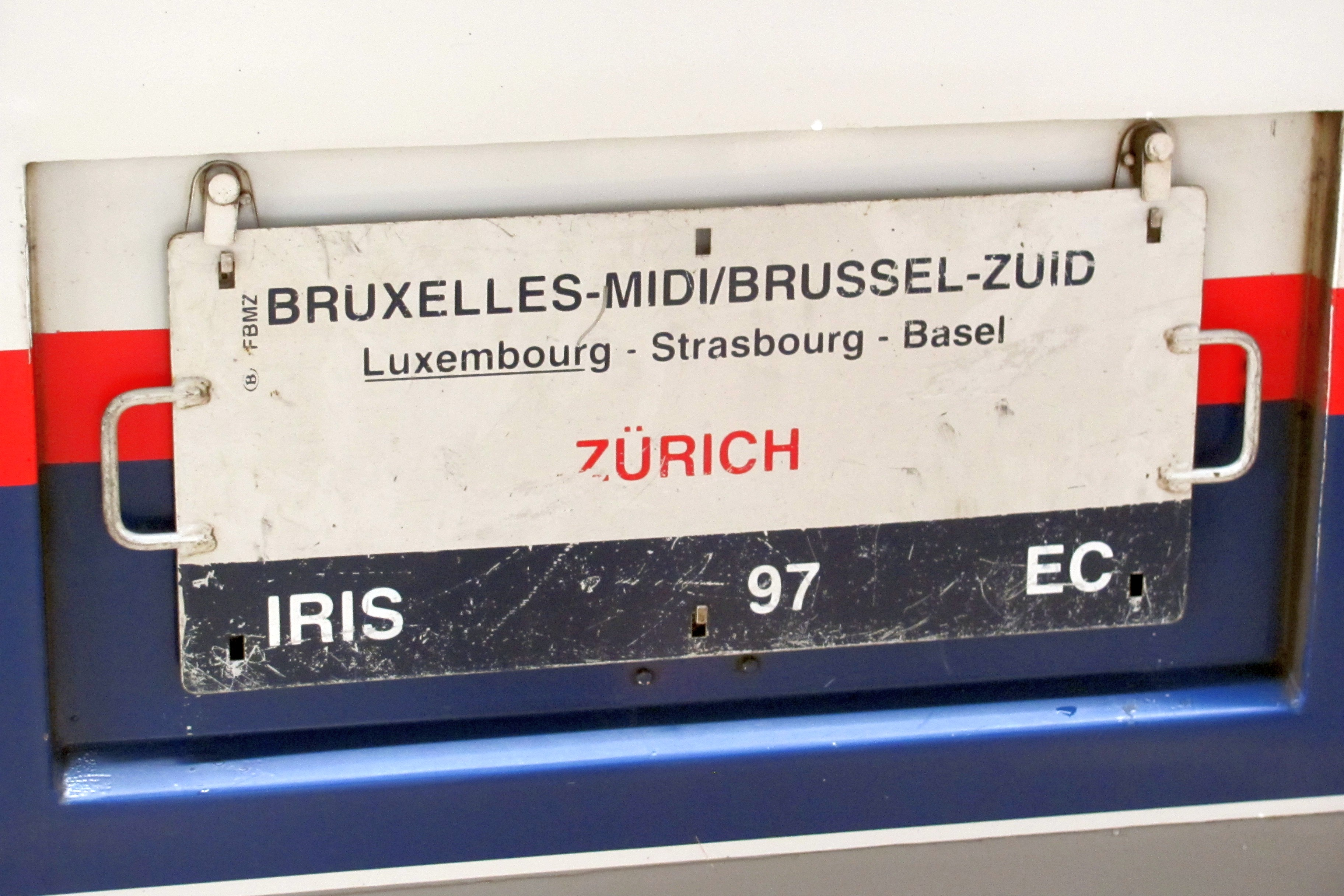 Eurocity service Brussels - Luxembourg - Basel - Zürich